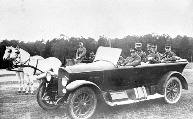 Supreme Commander of the Lithuanian Army, General Silvestras Žukauskas returns after military exercise with the Benz 12/32 PS. Klaipėda, 1925.